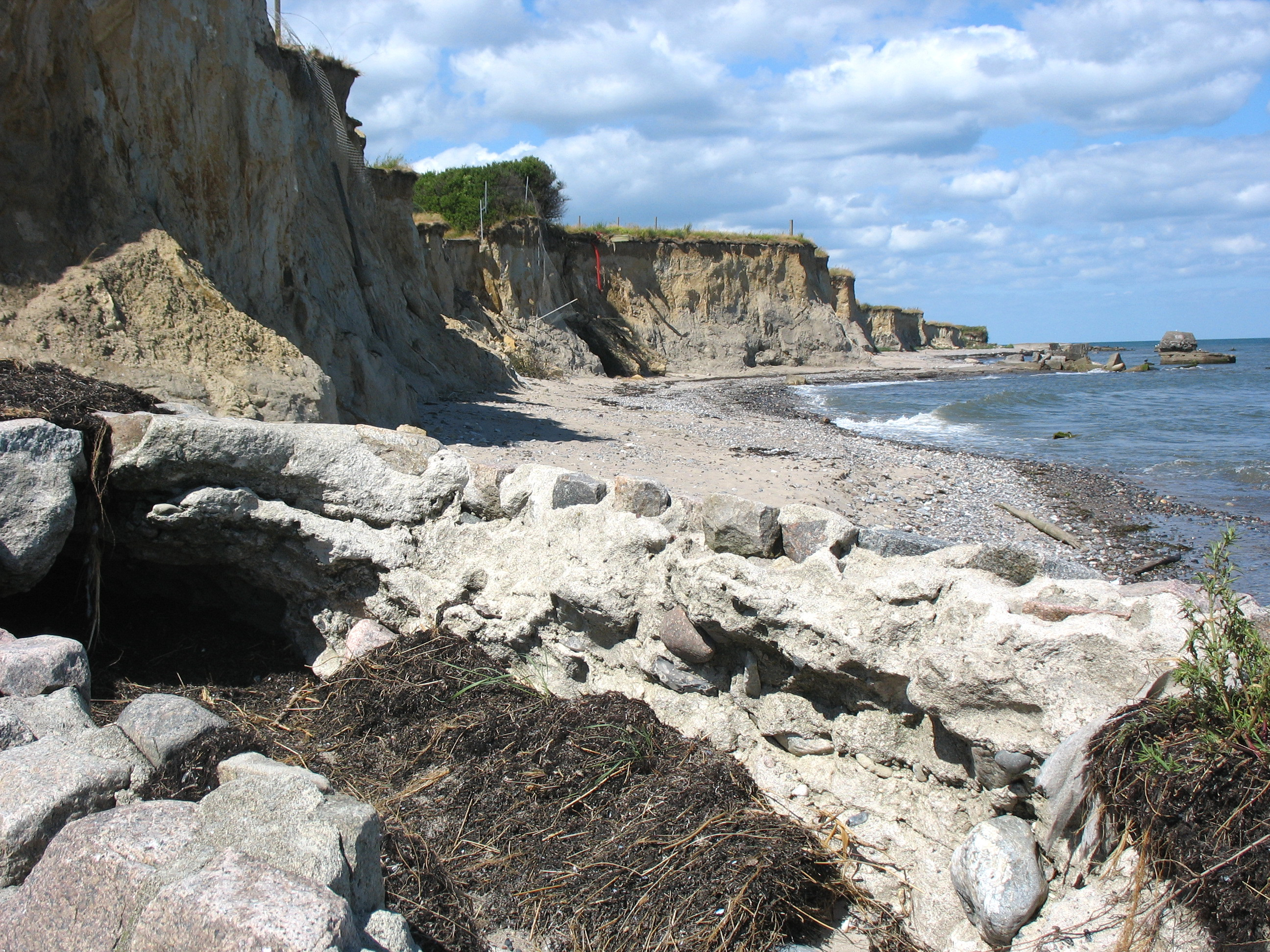 "Gedser Odde" coast on the Danish island Falster. The most southern place in Denmark.